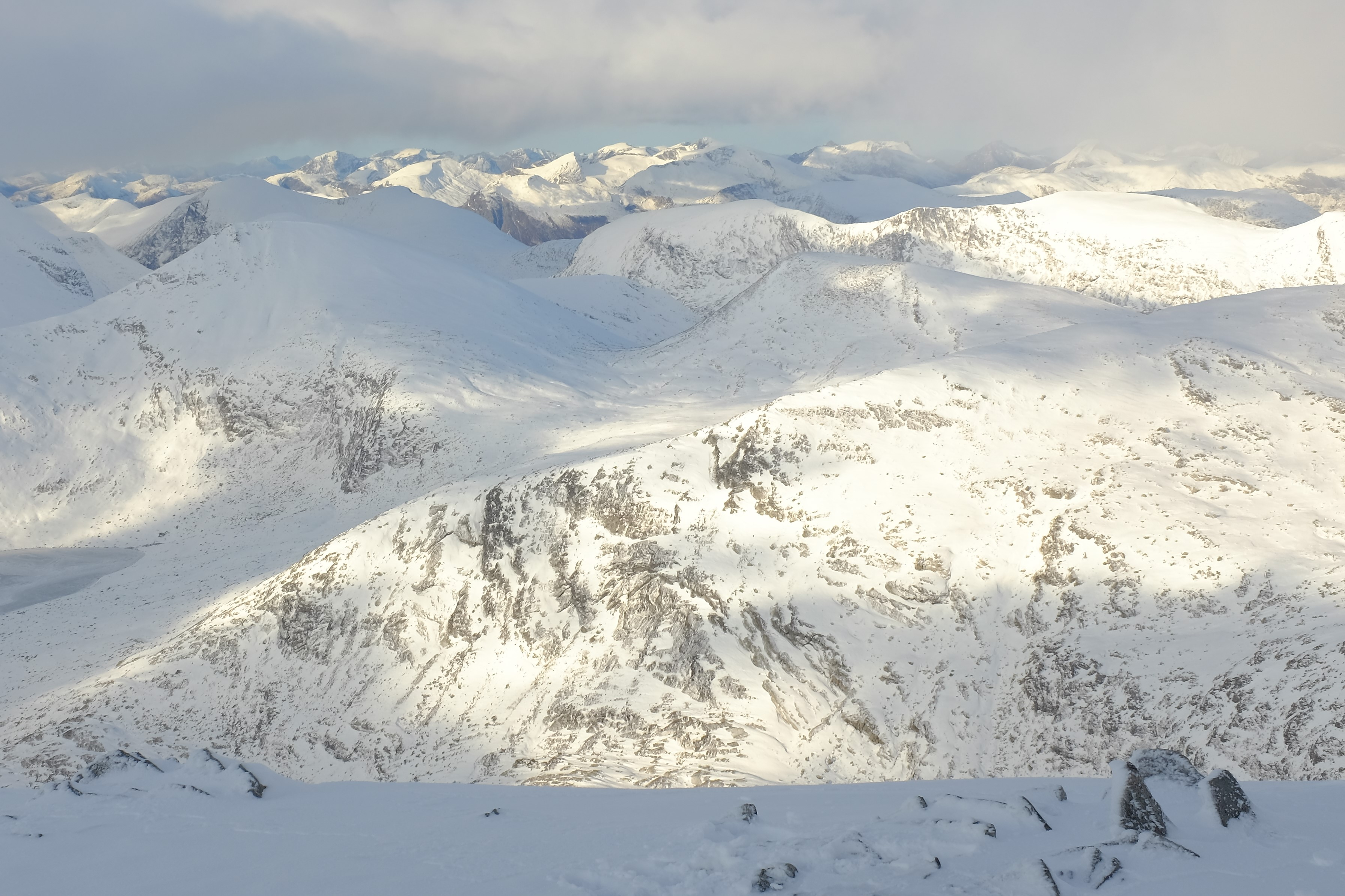 Montains in Reinheimen National Park in Norway. The national park that was established in 2006. The park consists of a 1,969-square-kilometre (760 sq mi) continuous protected mountain area. It is located in Møre og Romsdal and Oppland counties in Western Norway.